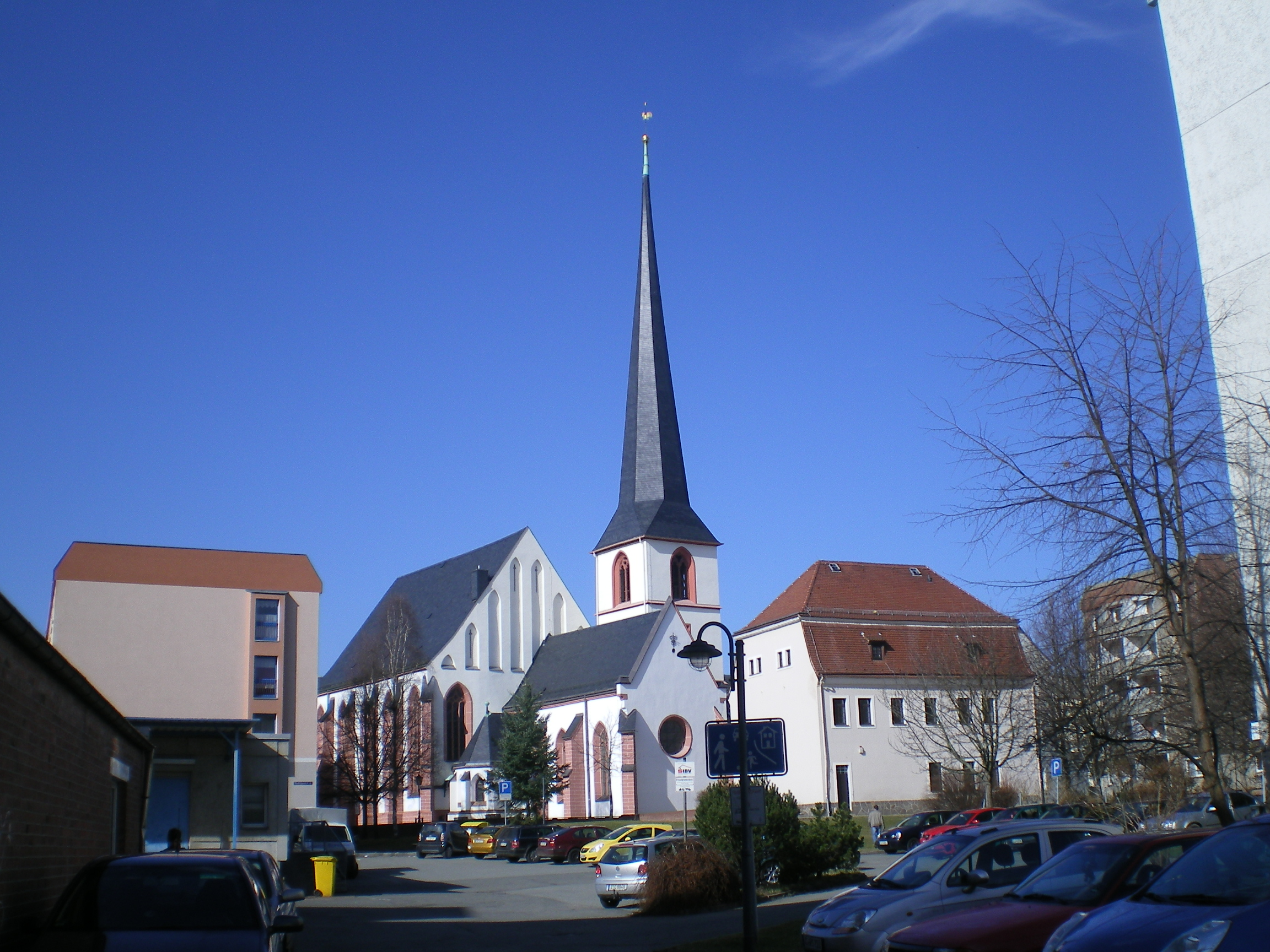 Church St. Laurentius in Crimmitschau near Zwickau/Saxony